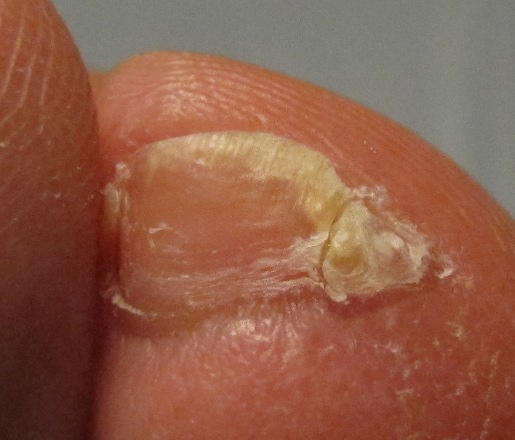 Accessory nail of the fifth toe. European descent; no Chinese lineage.